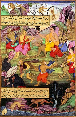 Rama on monkey come at shores of ocean